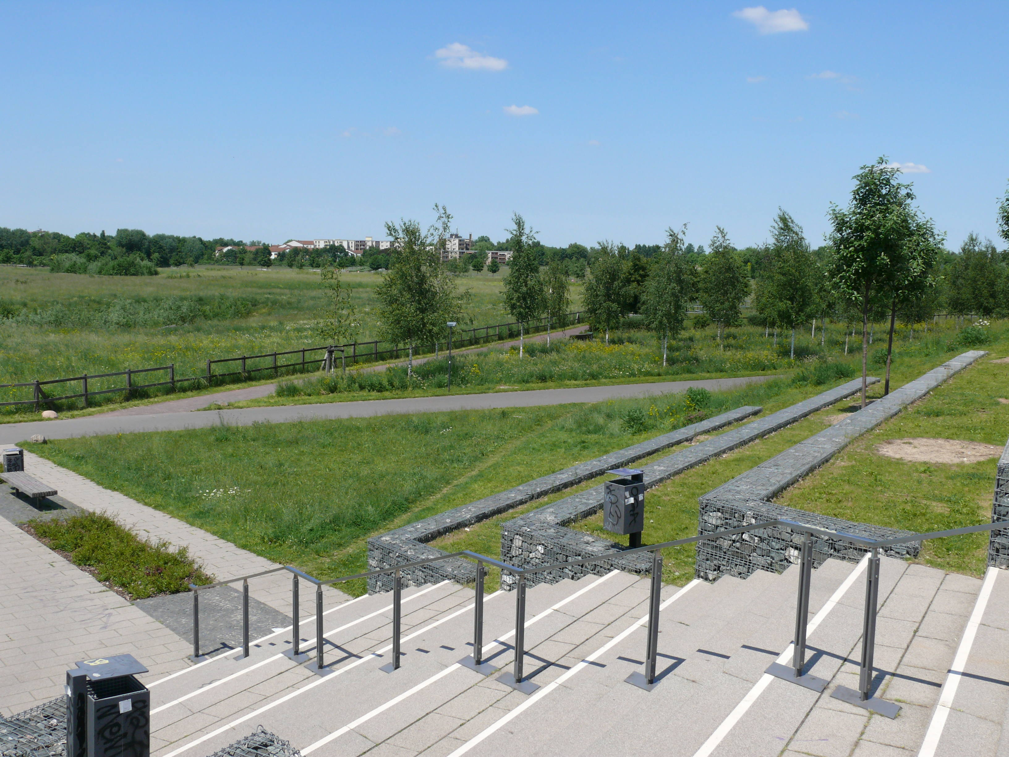 Berlin-Altglienicke Landschaftspark Rudow-Altglienicke